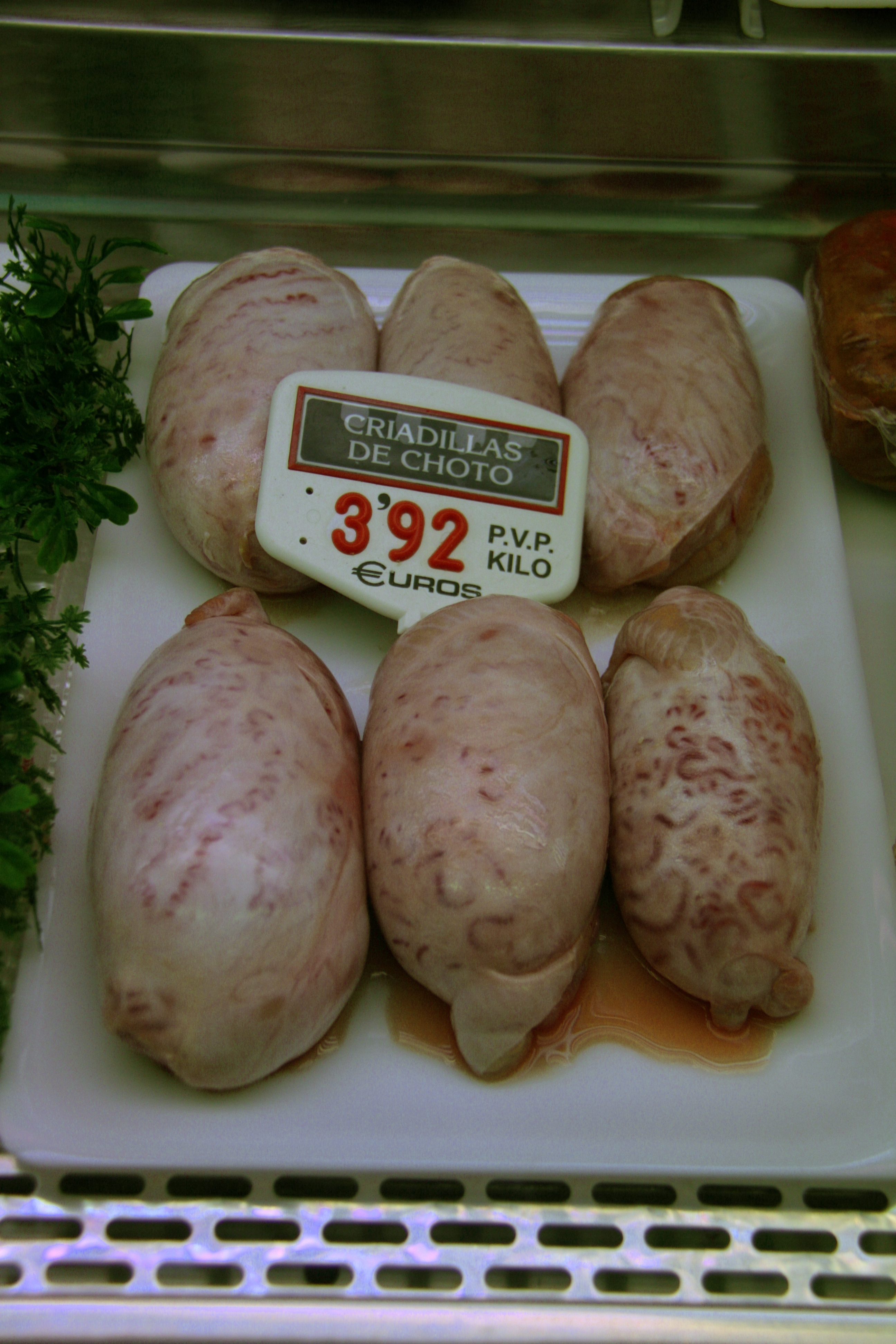 Goat testicle - Madrid